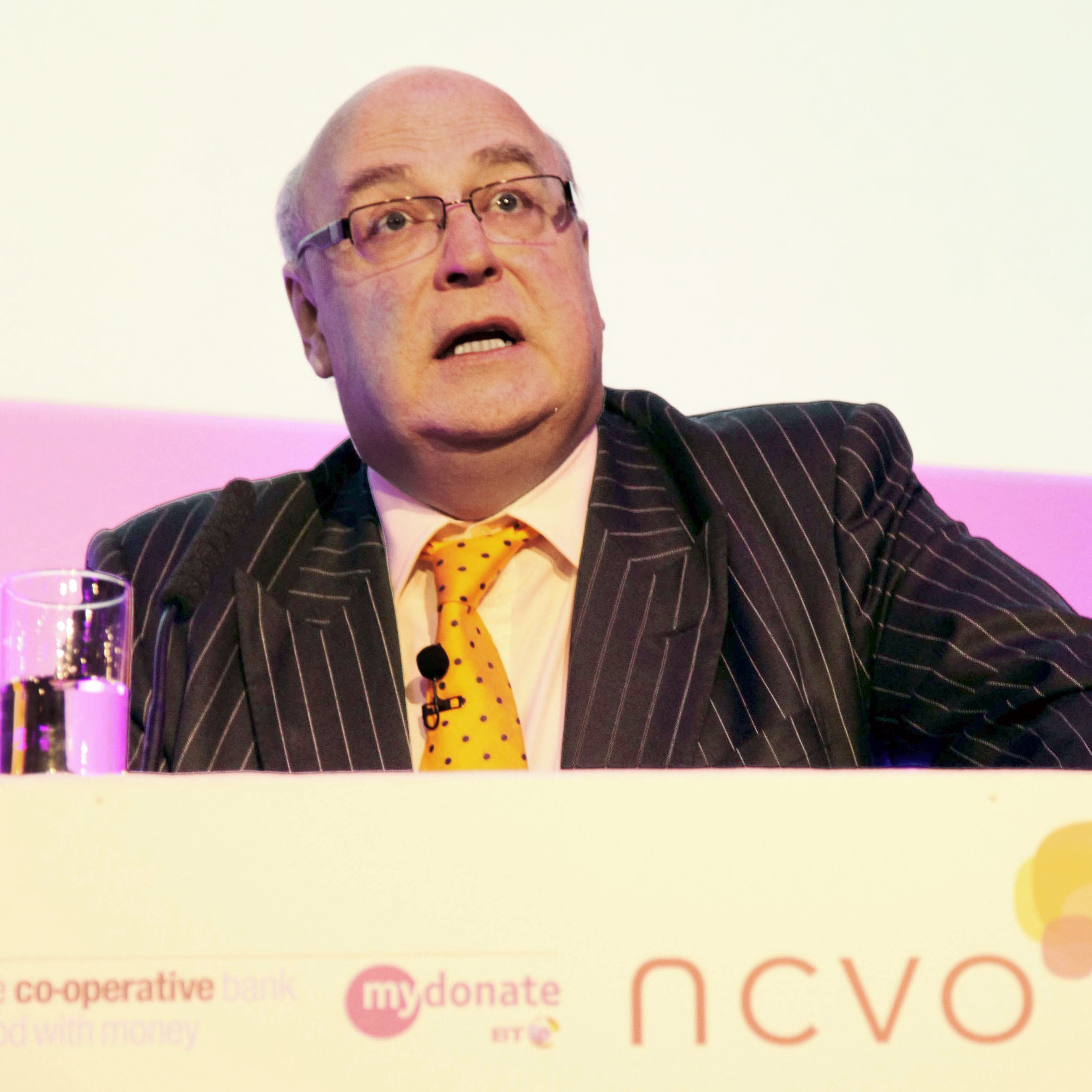 Sir Stuart Etherington, Chief Executive of NCVO, speaking at the organisation's Annual Conference in 2012.